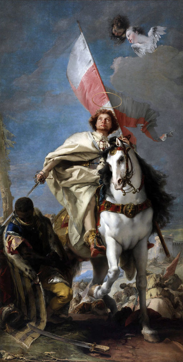 St Jacobus defeats the Moors